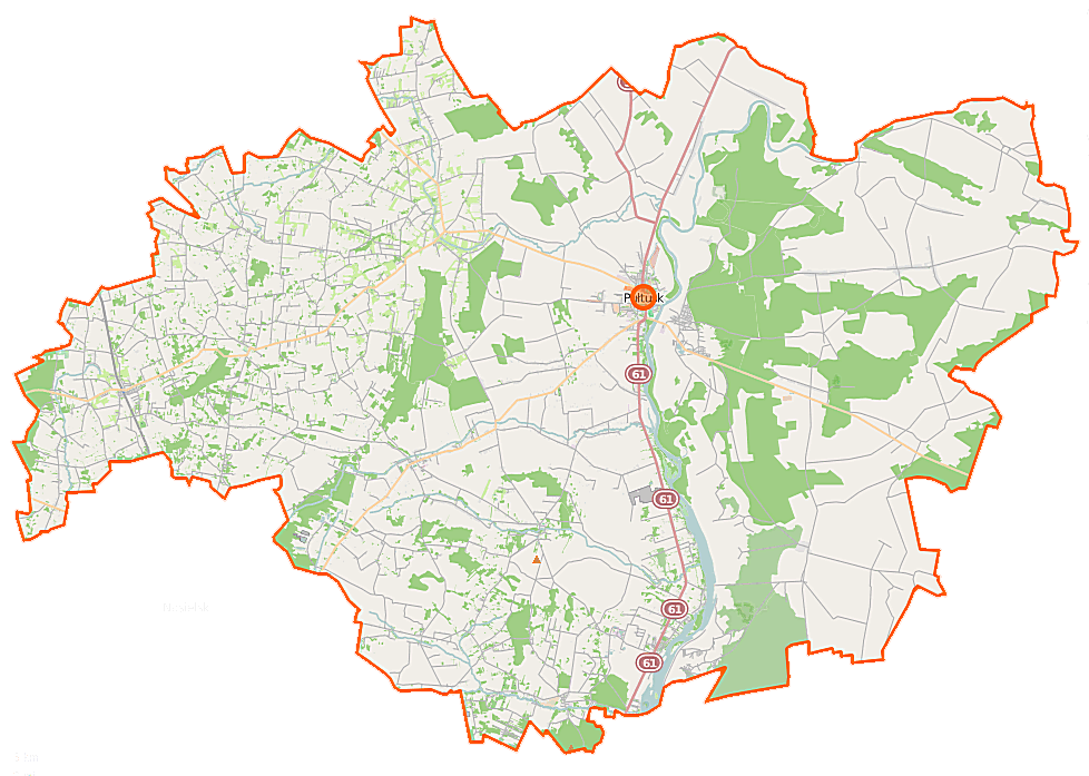 Map of Powiat pułtuski, Poland This map of Powiat pułtuski was created from OpenStreetMap project data, collected by the community. This map may be incomplete, and may contain errors. Don't rely solely on it for navigation. Border coordinates52.816020.6873←↕→21.358852.5254